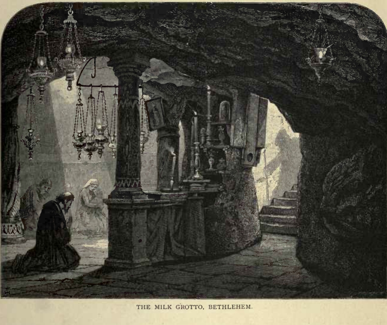 Bethlehem chapel_of_nativity 1880